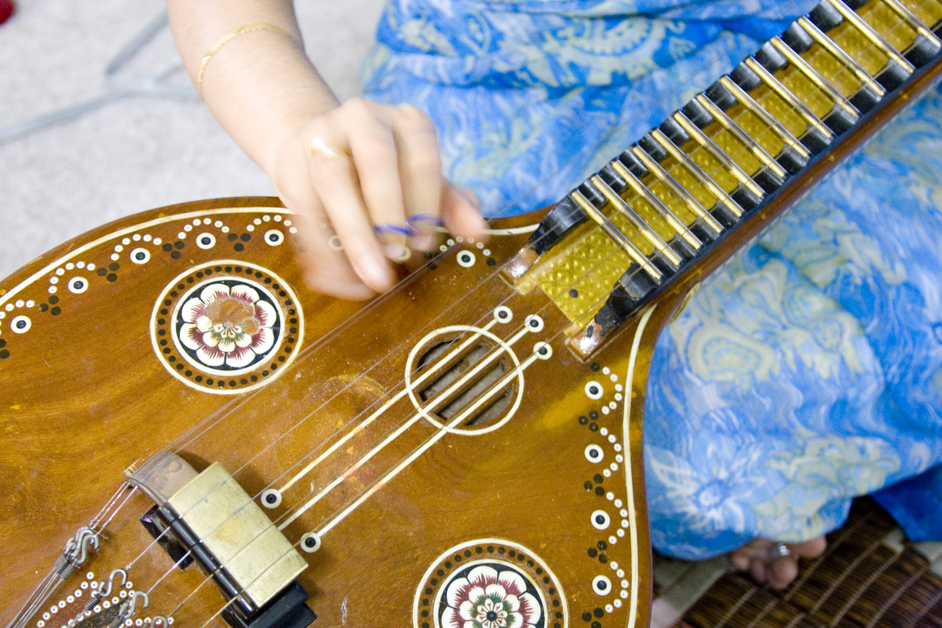 Close view to a saraswati vina